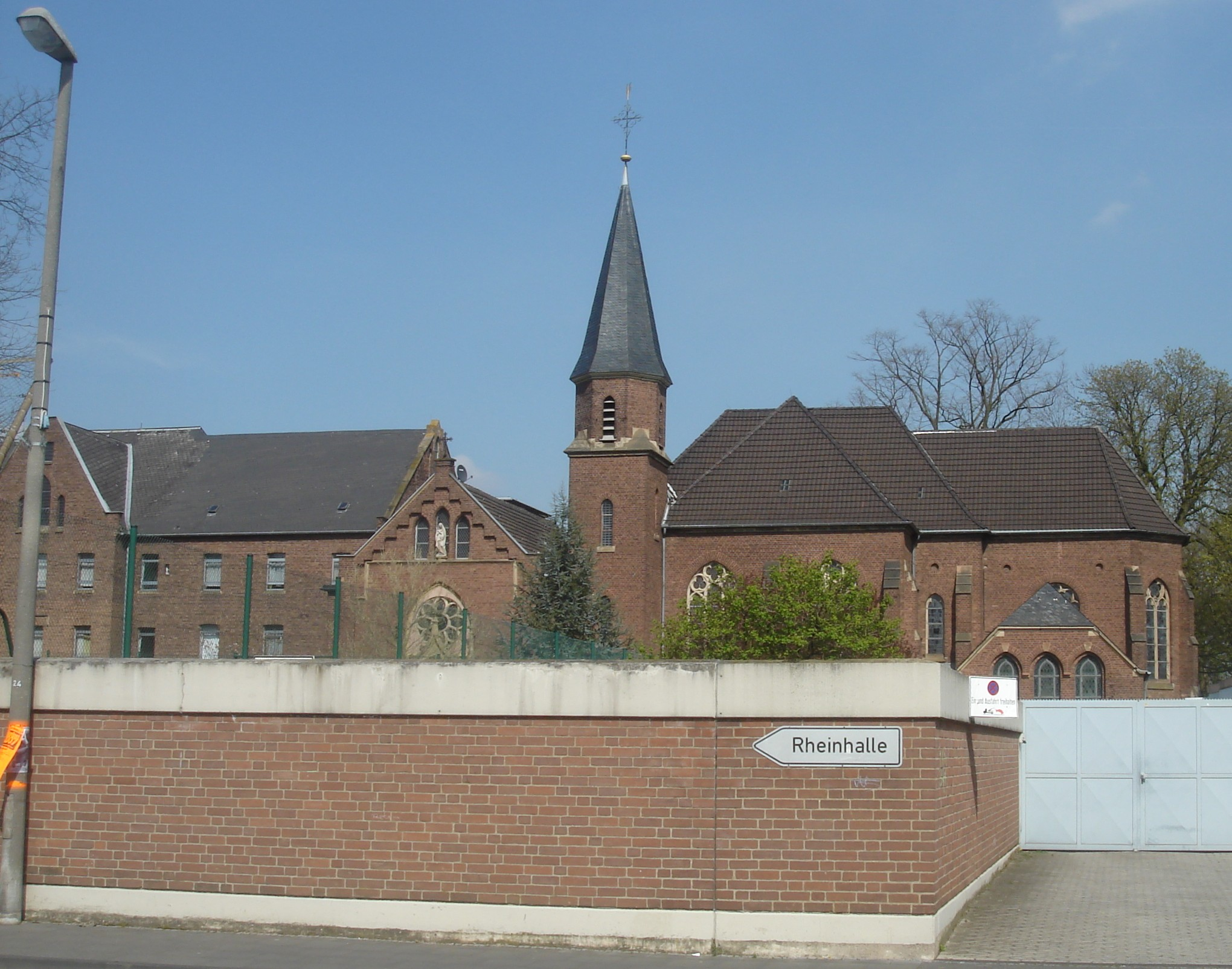 Ursuline monastery in Bornheim-Hersel, Germany, now a girls' school.